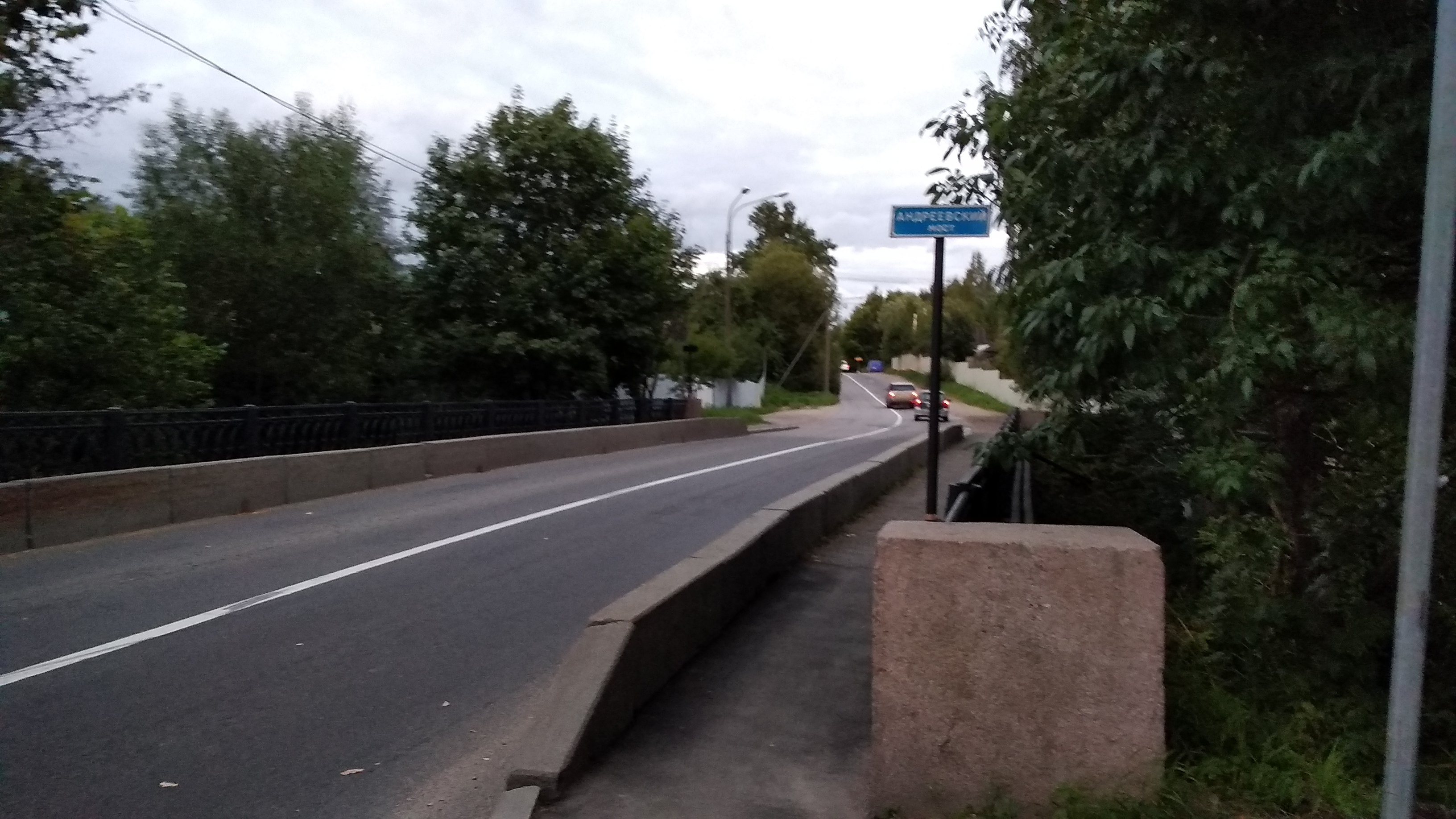 Andreevsky bridge in St Petersburg